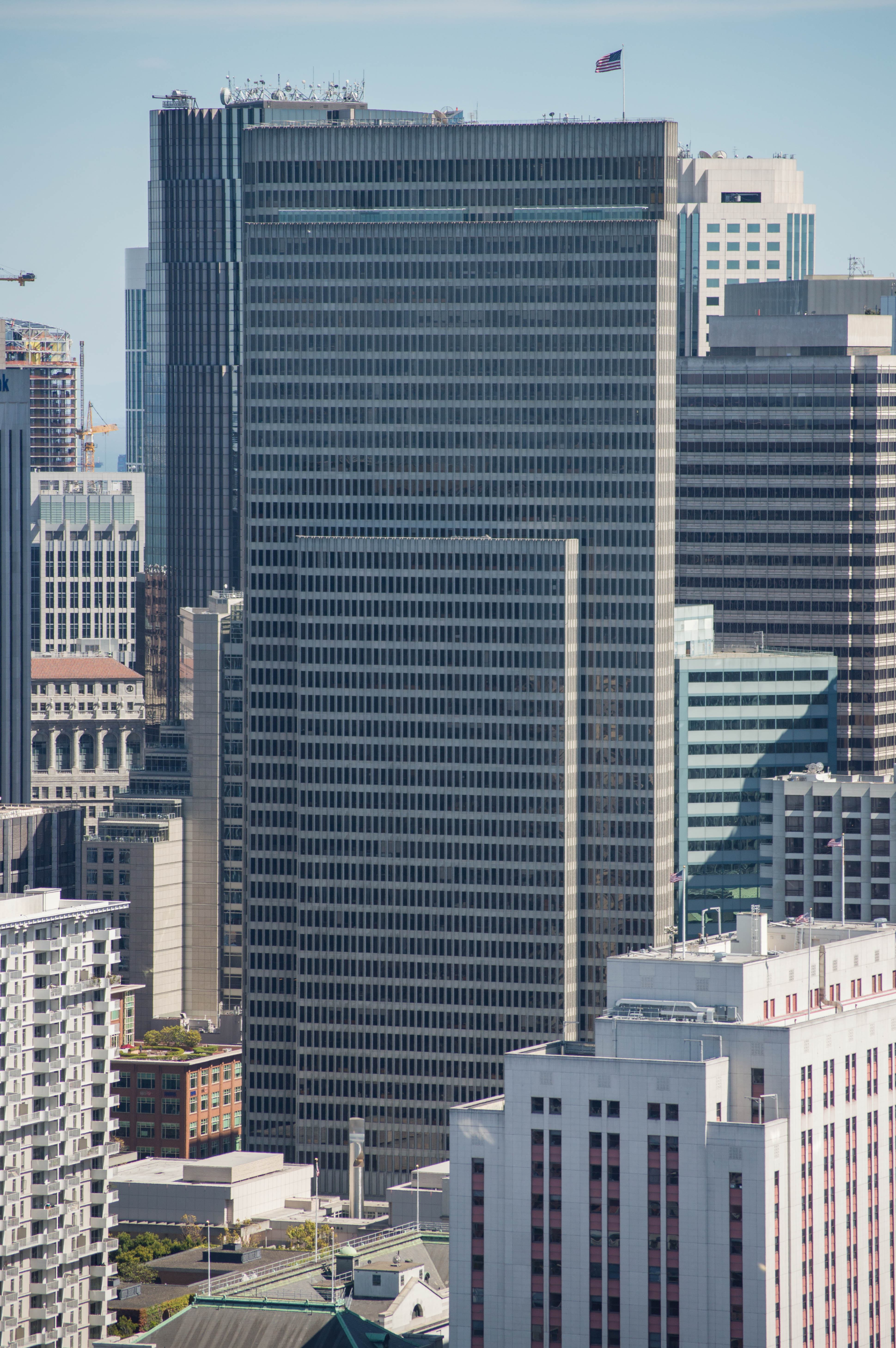 Embarcadero Center 1 from Coit Tower, San Francisco.